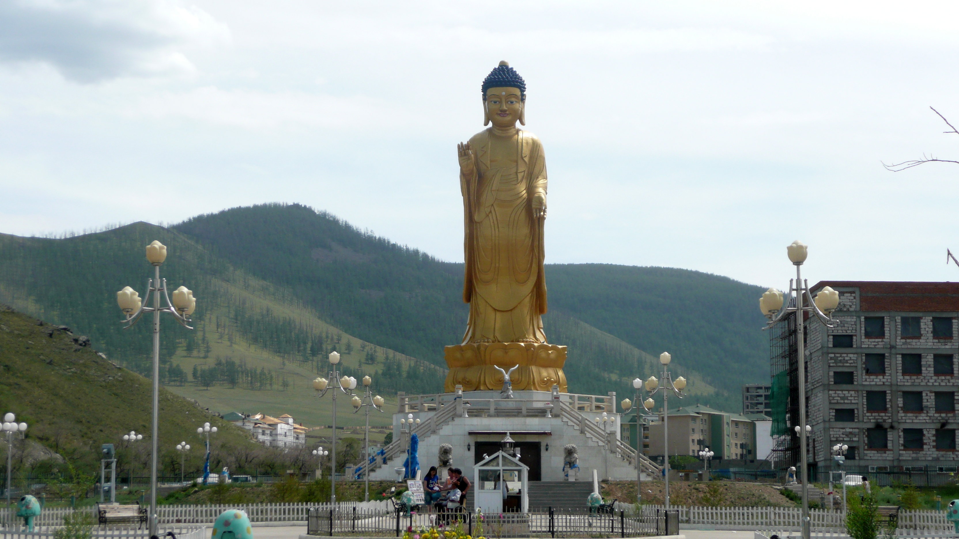 Buddha in Ulan Bator